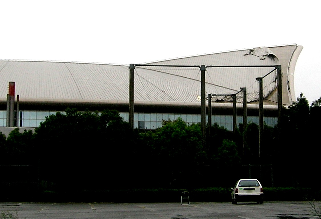 Nagoya City Sports Complex (Nippon Gaishi Arena), damaged by Typhoon Talas (2011). Loc: Minami-ku, Nagoya city, Aichi Prefecture, Japan. 平成23年台風第12号によって屋根板が剥がれた名古屋市総合体育館（日本ガイシアリーナ）。 撮影場所 愛知県名古屋市南区